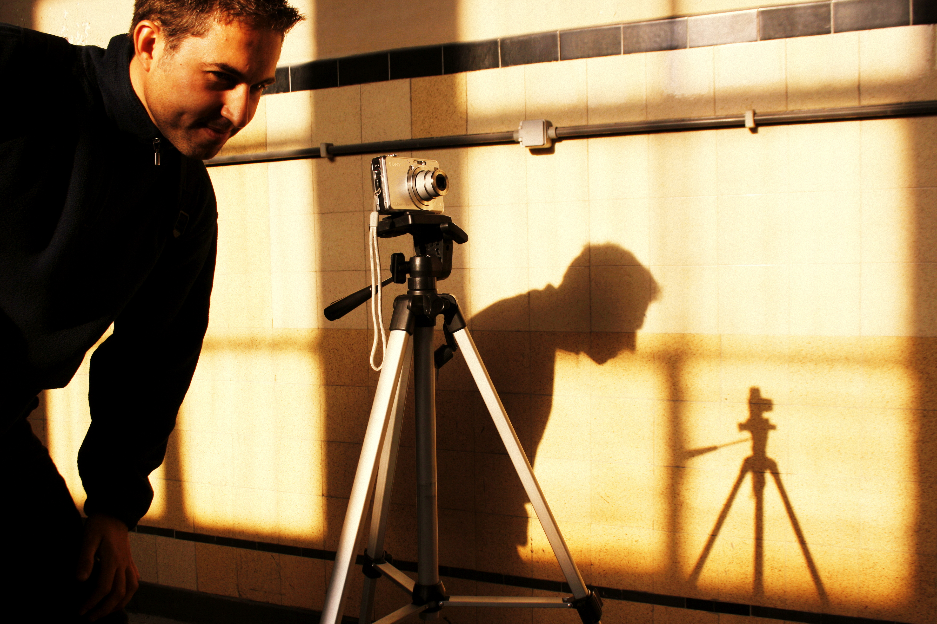 Een urban explorer met statief